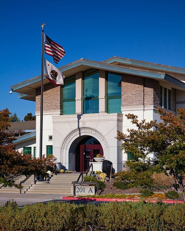 Vallecitos Water District Administration Office. Location of Sustainable Demonstration Garden which demonstrates decorative water features that run off collected rainwater and solar power, California-friendly plants, and weather-based irrigation controllers.